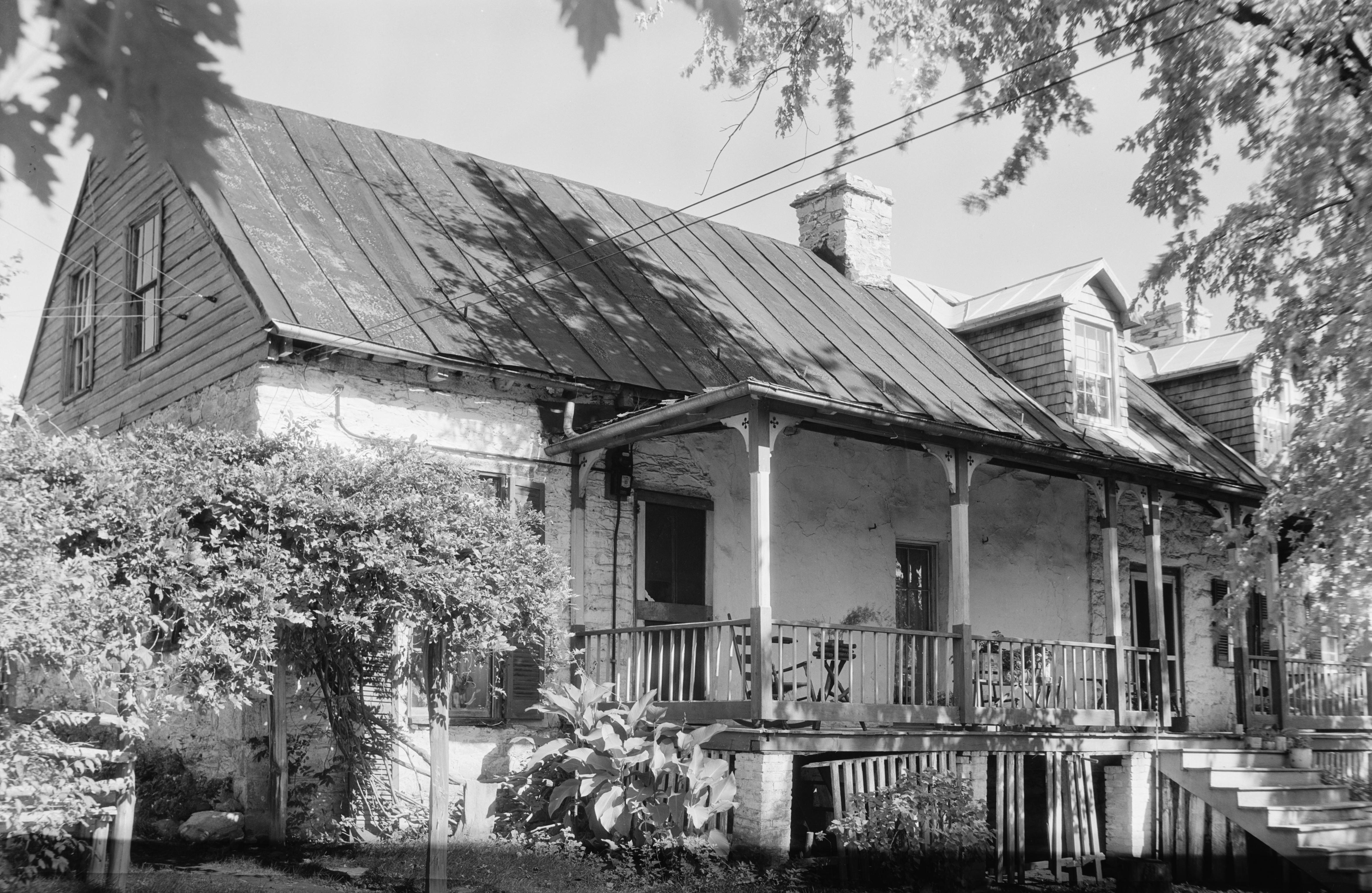 Front of the farmhouse at White House Farm, located off WV 13 east of Summit Point in Jefferson County, West Virginia, United States. Built in 1742, it is listed on the National Register of Historic Places.